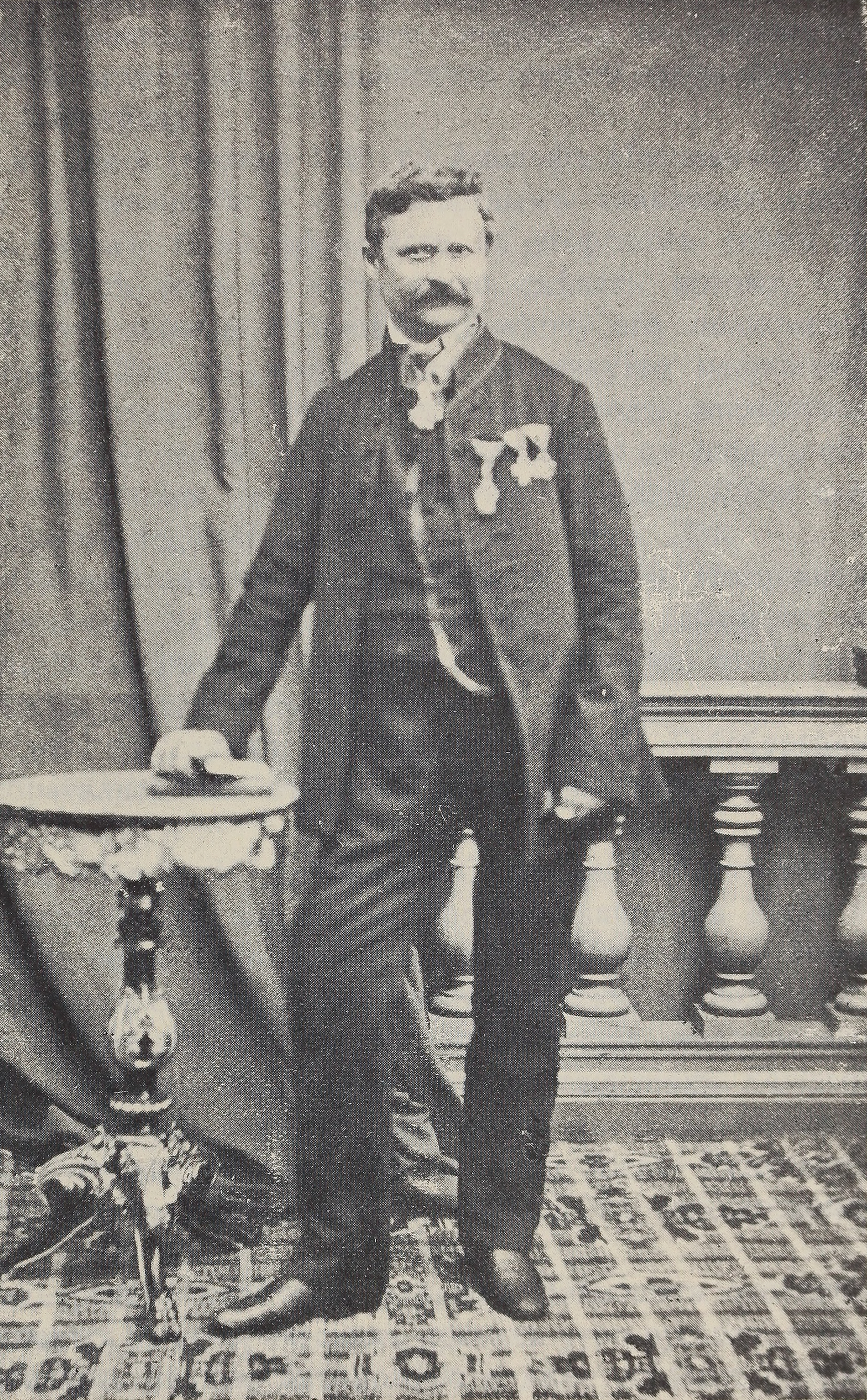 Adolf Dobryansky. Budapest, near 1860